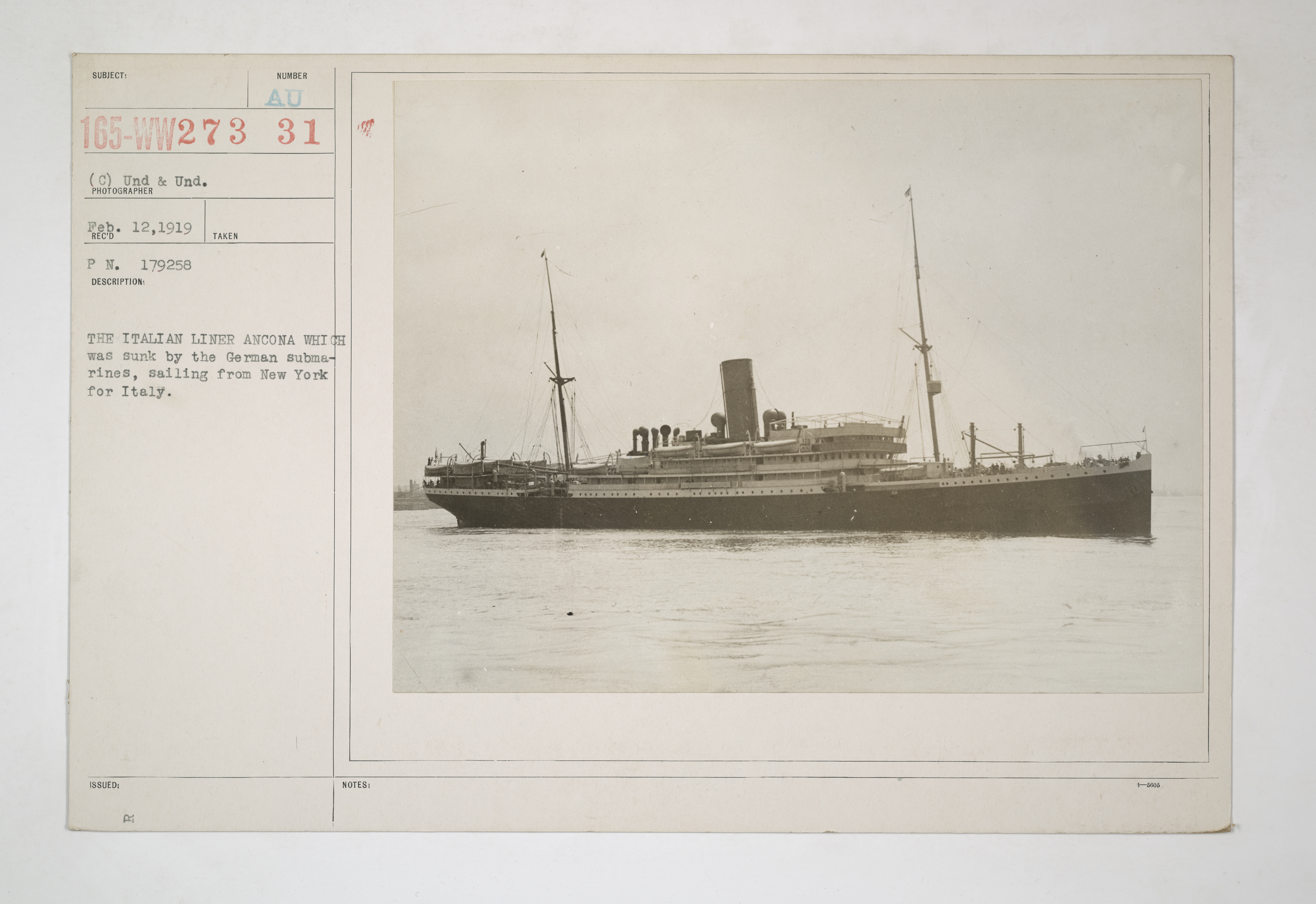 Scope and content: Photographer: Underwood and Underwood